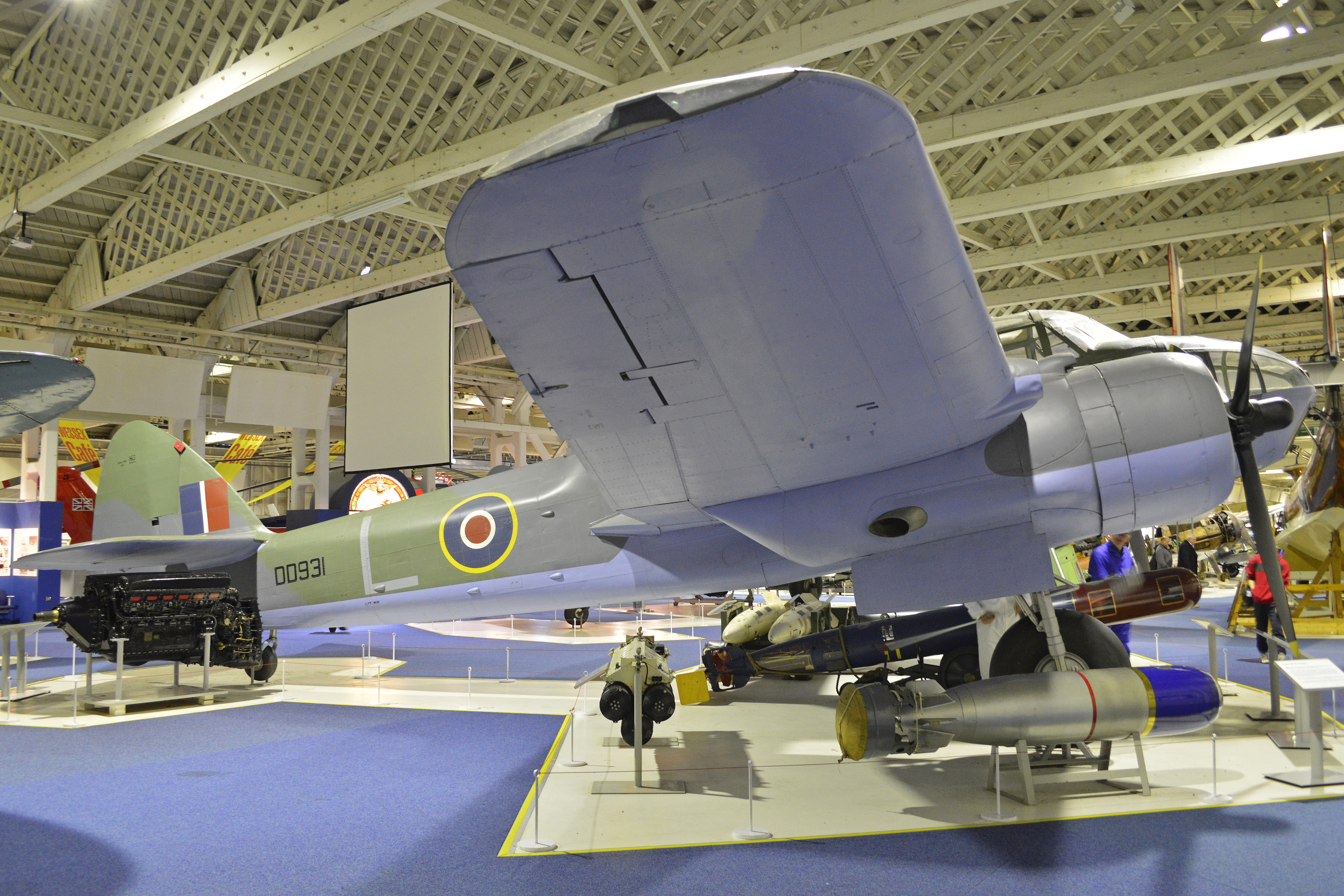 This is a complicated composite airframe made from Mk VIII components recovered from Papua New Guinea. It has the nominal identity of ‘A9-559’ from which some fuselage components were used in the rebuild. It was exchanged for gate guard Spitfire XVI ‘RW382’ and the restored airframe was delivered to RAF Cardington in June 1991. By early 1992 it was on display at Hendon. It is painted to represent Beaufort IIA ‘DD931’ of 42sqn and has been given the early rudder shape, among other modifications, to more accurately represent the earlier mark. Work on the aircraft’s interior continues, as little equipment was available during the rebuild. It is the only Beaufort in Europe. RAF Museum, Hendon, London, UK. 22-3-2015